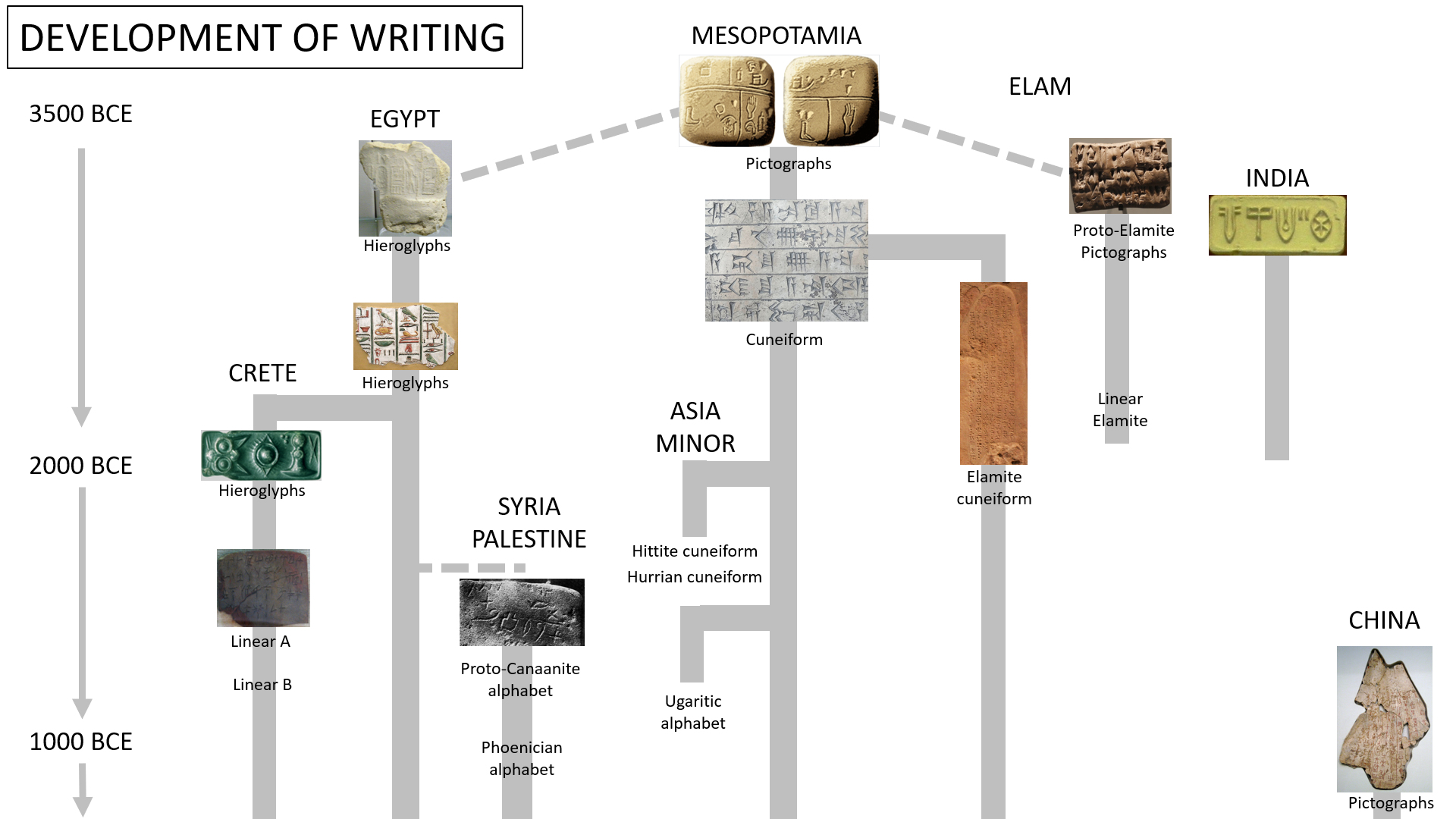 Development of writing